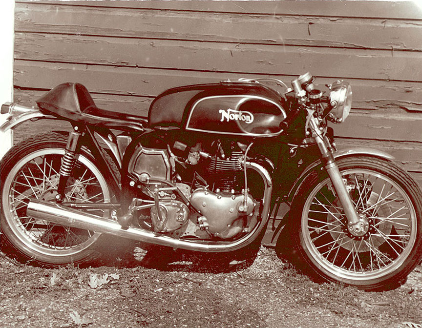 "motorcycle" Norton Dunstall Motorcycle [foto by P.B.Toman]